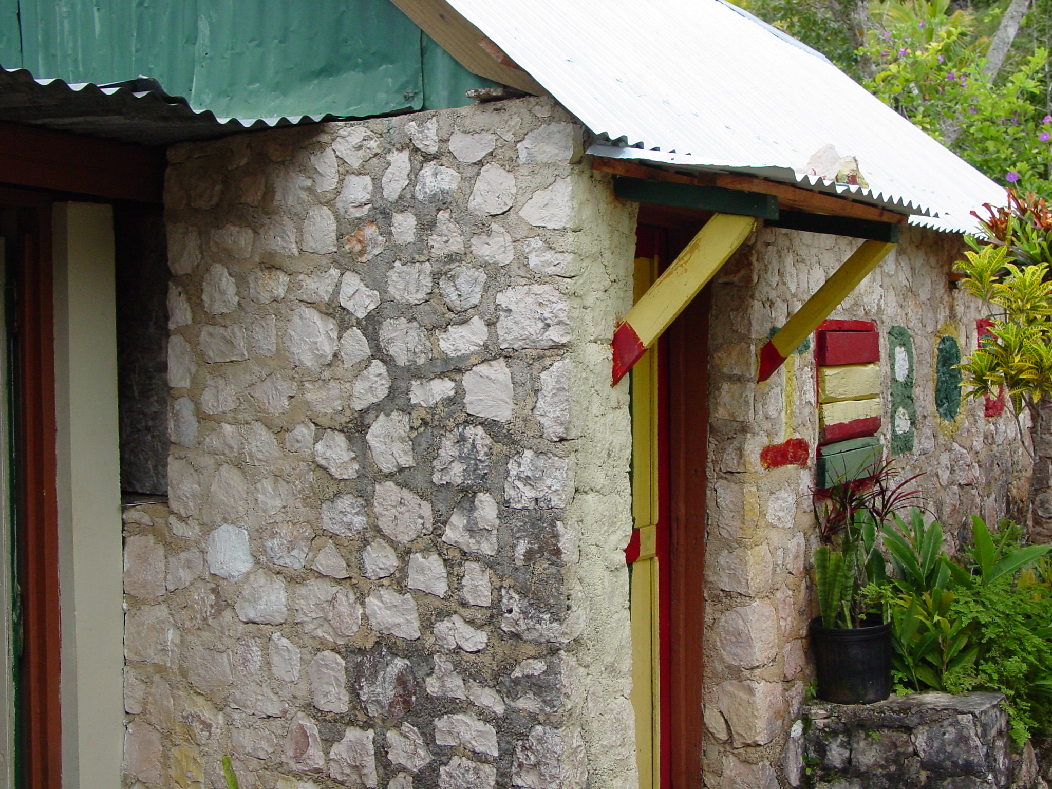 Bob Marley house in Nine Mile, Jamaica. Bob Marley lived in this house when he was young and also returned here many times in his life, but he was born in his mother's house which can be seen from the bar outside the gates. See also: File:Bob Marley house in Nine Mile.jpg